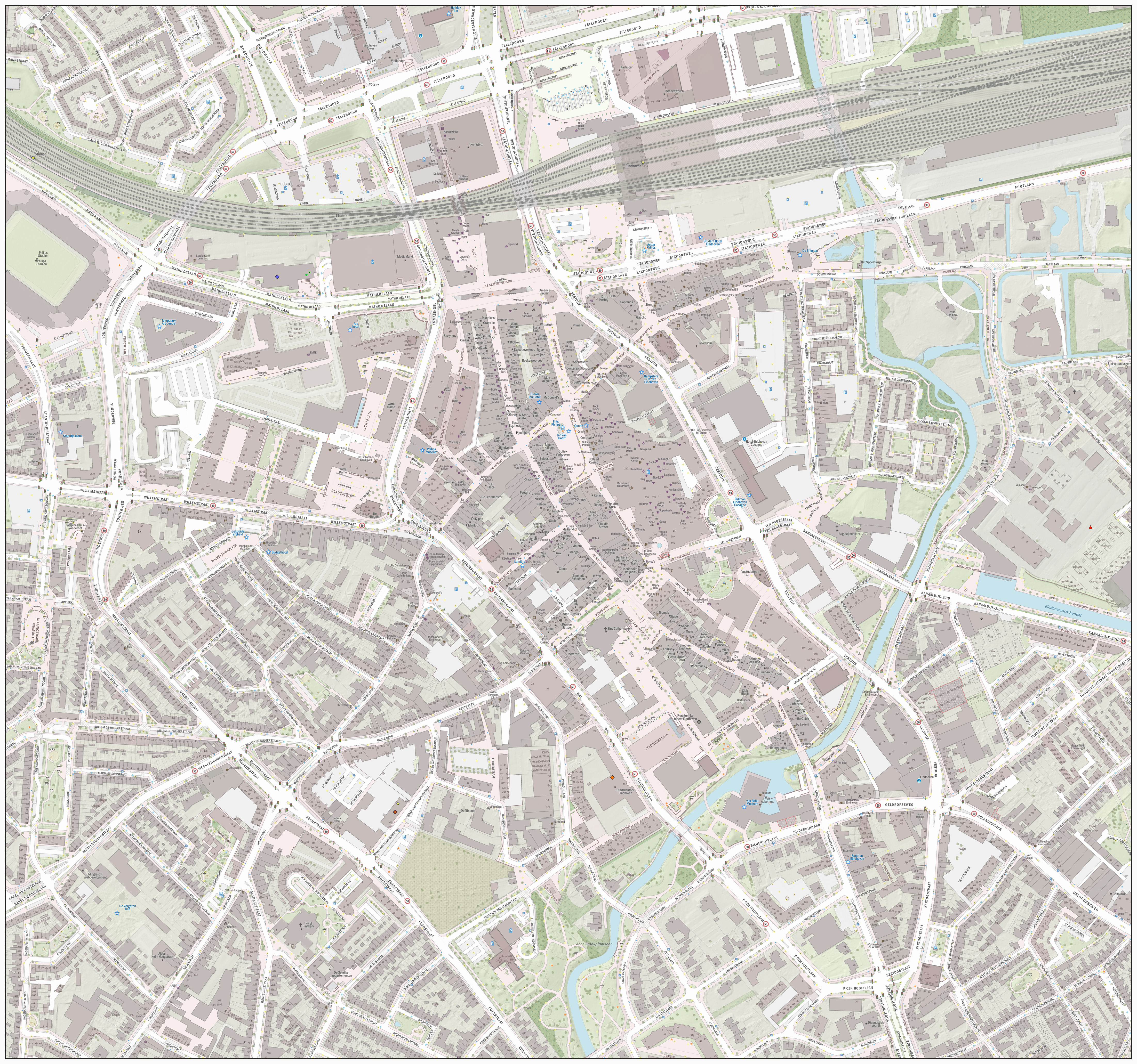 High resolution topographic rendering of the central part of the city of Eindhoven, combining elements of the new Dutch Base Registry of Large-scale Topography (BGT), CC-BY Dutch Kadaster. Also incorporated: elements of the OpenStreetMap (OSM), CC-BY OSM contributors.